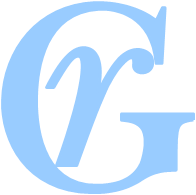 beeldmerk van de Gezondheidsraad